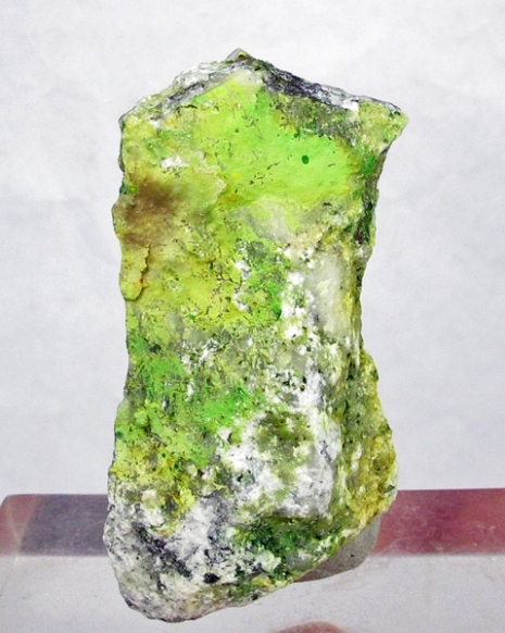 Xocomecatlite Locality: Trixie Mine (Trixie shaft; Old Trump prospect), East Tintic District, East Tintic Mts, Utah Co., Utah, USA Size: 6.0 cm x 5.4 cm x 2.8 cm Xocomecatlite is an extremely rare Cu-tellurate found at only seven localities worldwide (MINDAT). This rich and rare combination specimen is from the very obscure Au-Ag-Cu-Pb-Zn Trixie Mine of the East Tintic District of Utah. The sculptural quartz matrix wedge hosts bright and rich crusts and microcrystals of emerald-green xocomecatlite along with silvery grains of what appears to be hessite, not petzite and scattered flecks of free gold. Very rare combination material from this locale from the Dr. R.J. Bowell Collection.